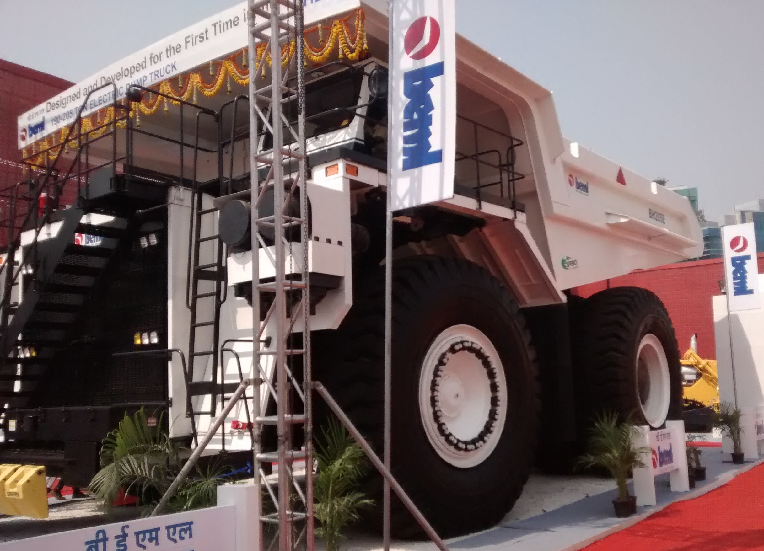 BEML BH205E-AC 205 tonne haul truck of India.